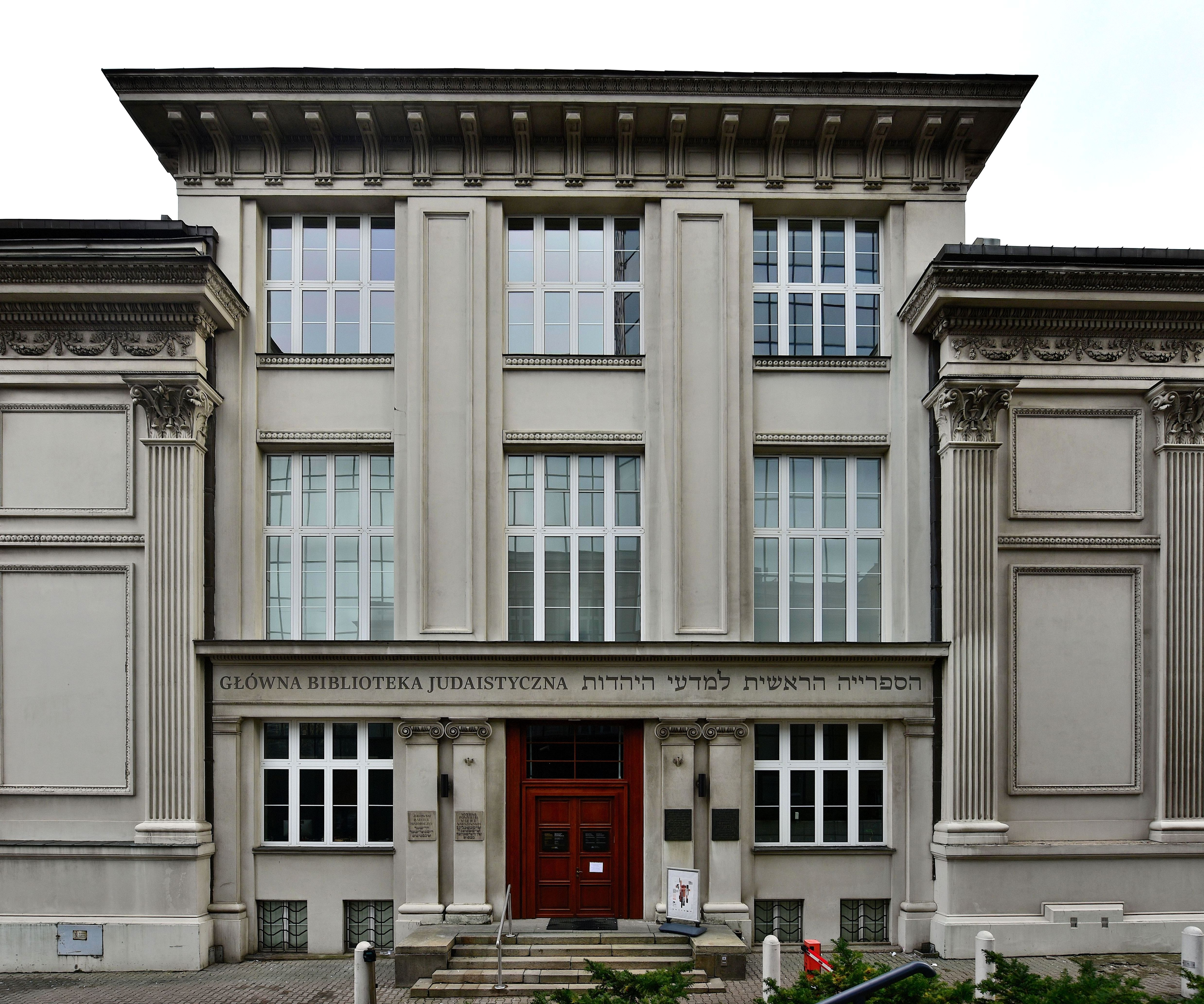 Jewish Historical Institute in Warsaw, main entrance